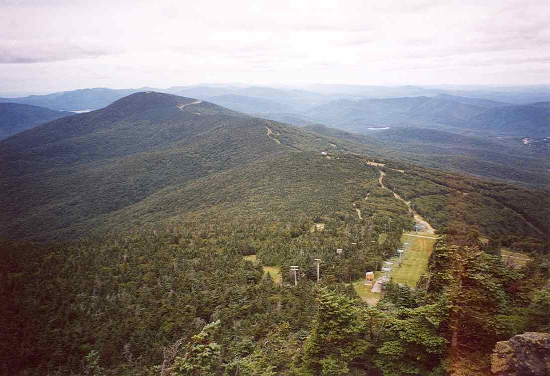 Pico Peak and ski runs between Killington and Pico, Vermont